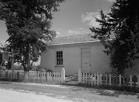 George Caleb Bingham House, Arrow Rock State Park, Arrow Rock (Saline County, Missouri). This file comes from the Historic American Buildings Survey (HABS), Historic American Engineering Record (HAER) or Historic American Landscapes Survey (HALS). These are programs of the National Park Service established for the purpose of documenting historic places. Records consist of measured drawings, archival photographs, and written reports. This tag does not indicate the copyright status of the attached work. A normal copyright tag is still required. See Commons:Licensing for more information. English | +/− This work is in the public domain in the United States because it is a work prepared by an officer or employee of the United States Government as part of that person’s official duties under the terms of Title 17, Chapter 1, Section 105 of the US Code. See Copyright. Note: This only applies to original works of the Federal Government and not to the work of any individual U.S. state, territory, commonwealth, county, municipality, or any other subdivision. This template also does not apply to postage stamp designs published by the United States Postal Service since 1978. (See § 313.6(C)(1) of Compendium of U.S. Copyright Office Practices). It also does not apply to certain US coins; see The US Mint Terms of Use. This file has been identified as being free of known restrictions under copyright law, including all related and neighboring rights.